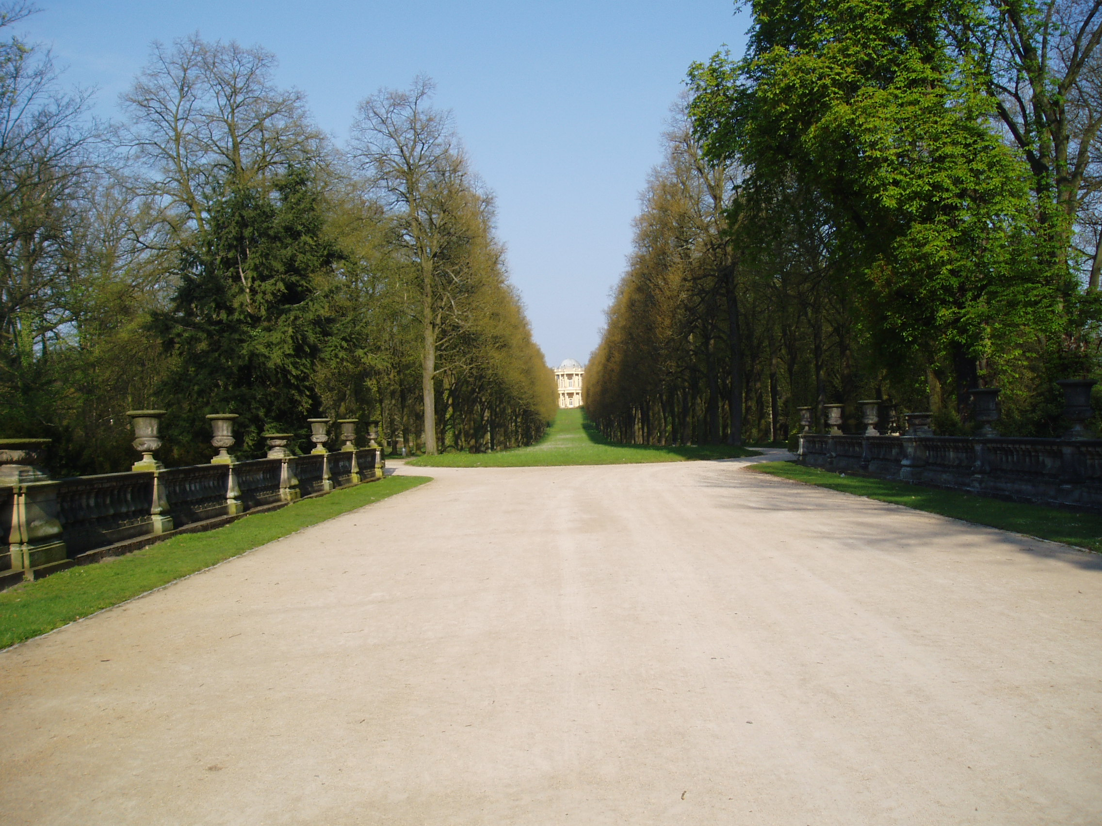 View from Orangery Palace to the western Belvedere on Klausberg Hill, Potsdam, Germany